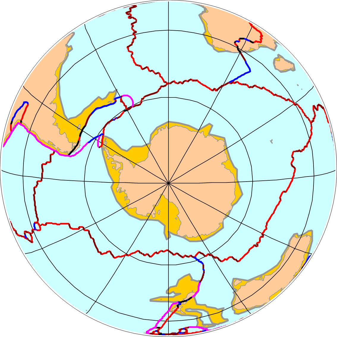 Antarctic tectonic plate. Orthogonal projection (as seen from deep space).